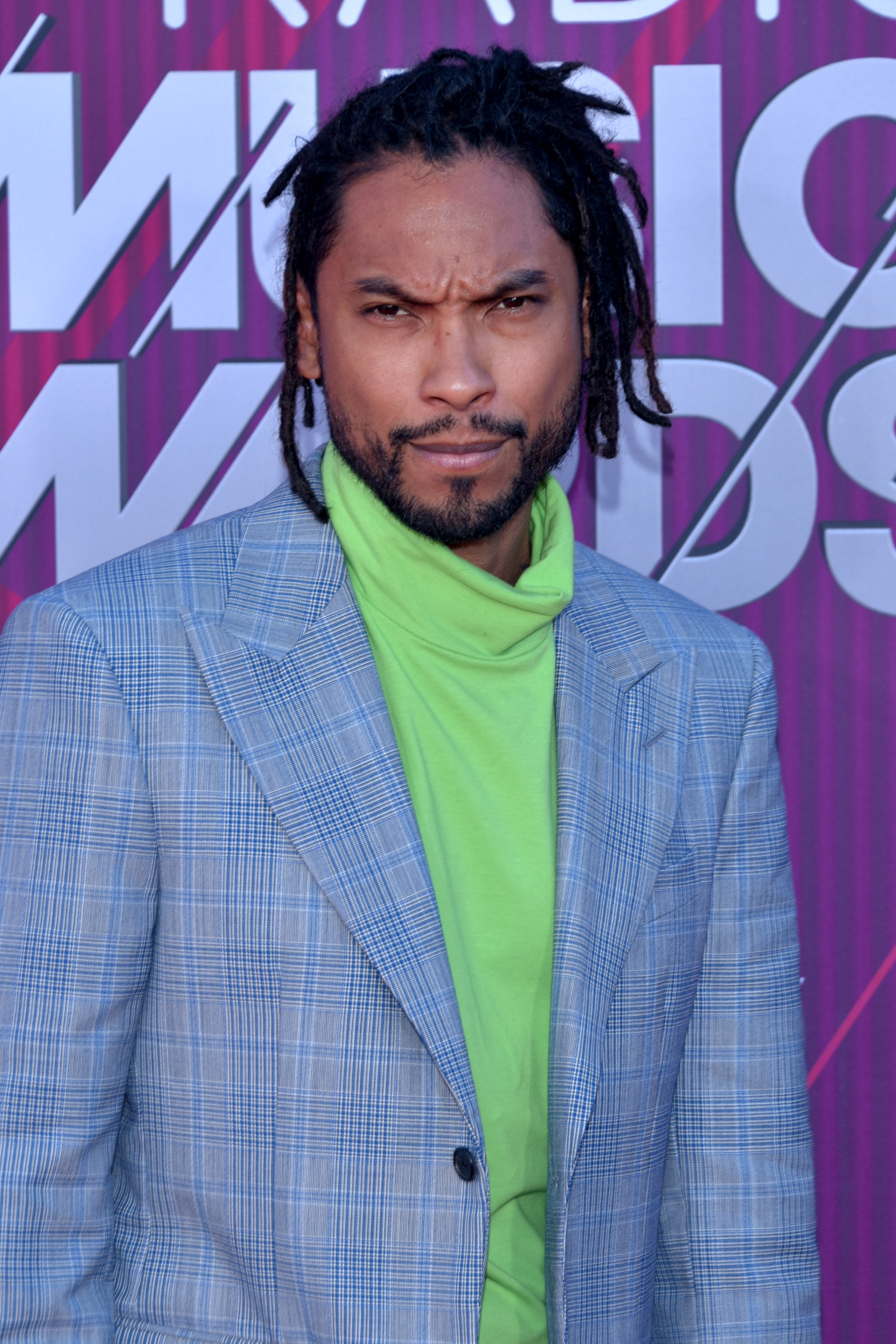 Miguel arrives for the 2019 iHeartRadio Music Awards in Los Angeles California - Photo by Glenn Francis of